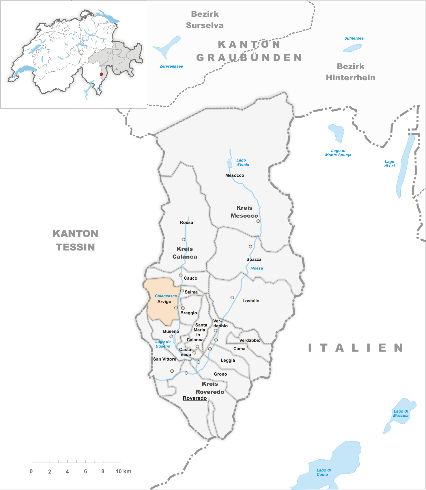 Municipality Arvigo